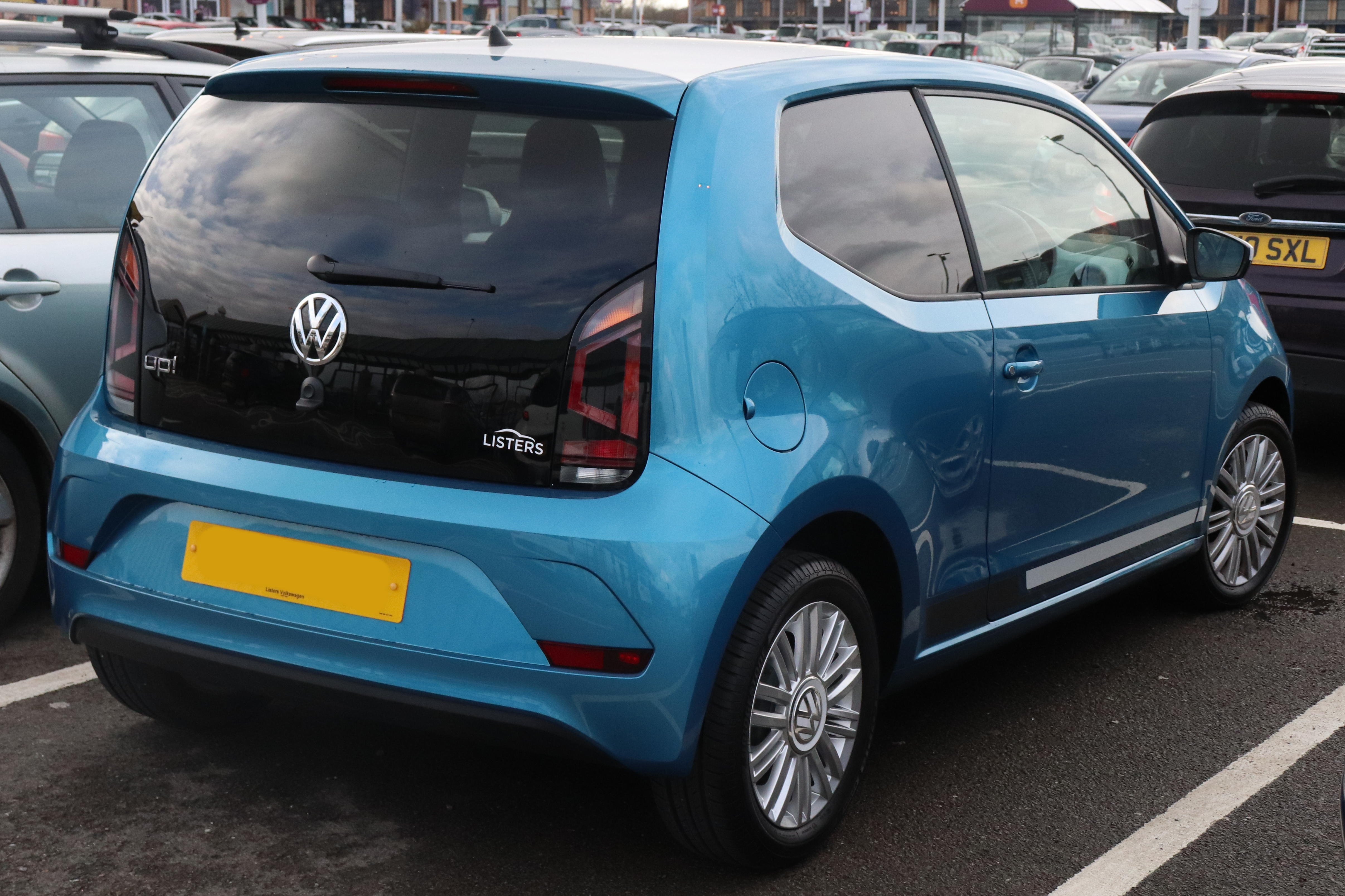 2017 Volkswagen Move Up facelift 1.0 Rear Taken in Leamington Spa